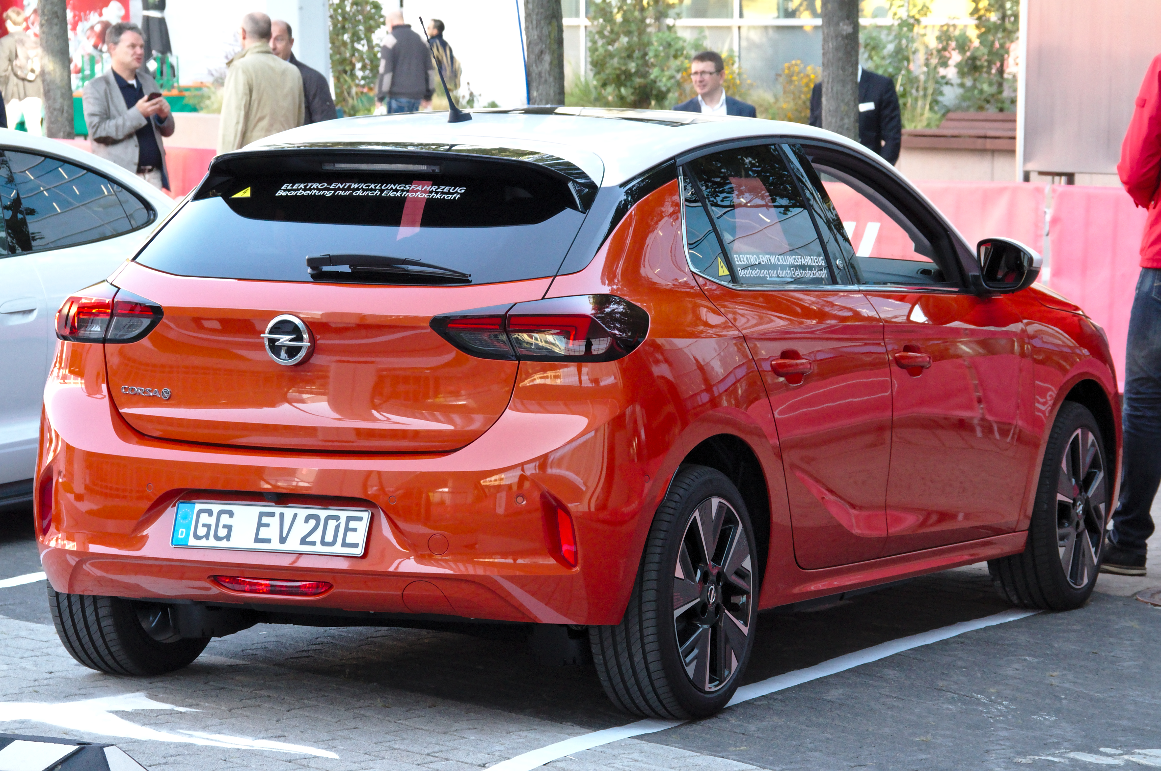 Opel_Corsa-e at IAA 2019